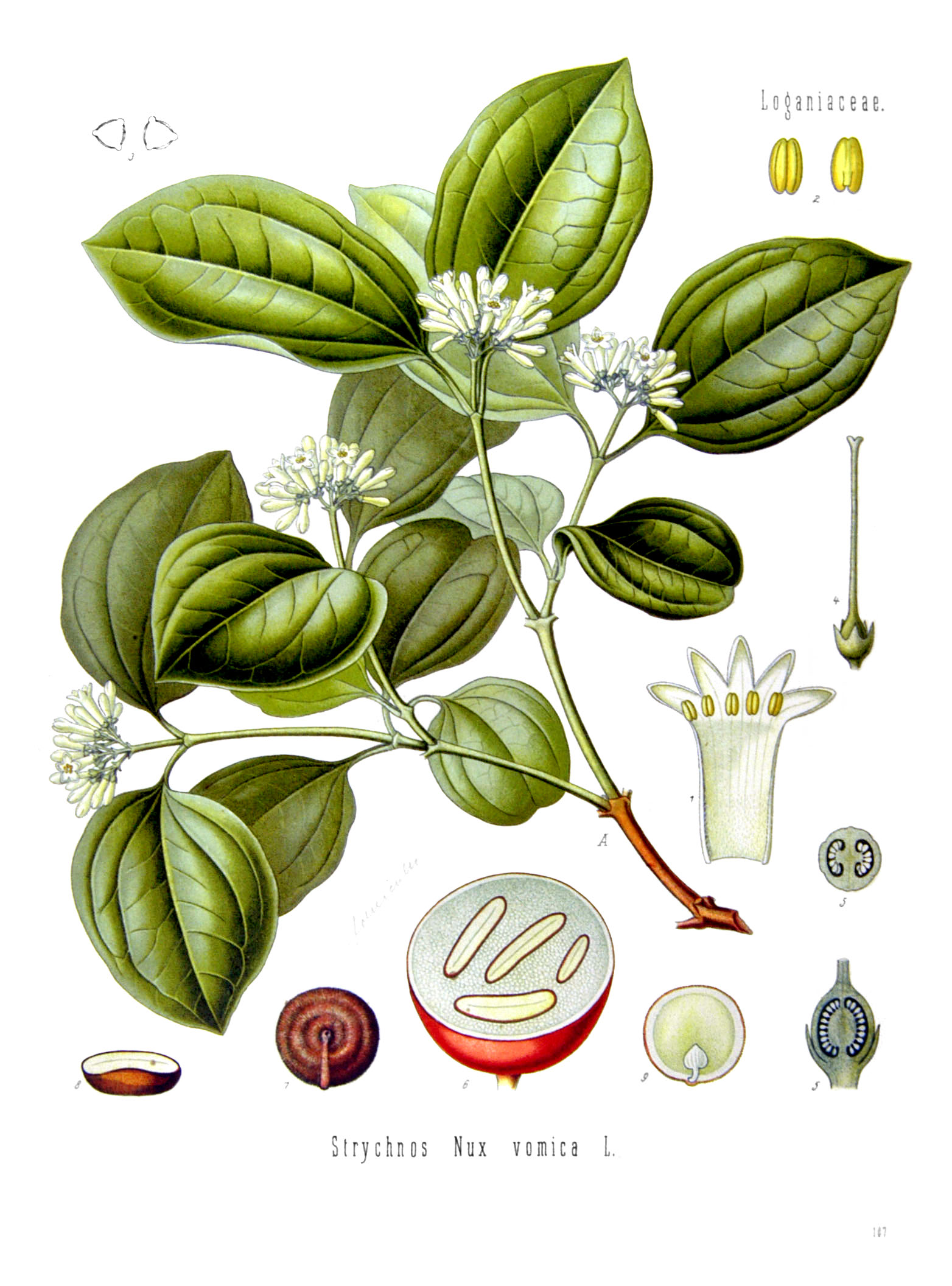 Illustration of STRYCHNOS Nux vomica L. 107 (Strychnos nux-vomixa L., strychnine tree) Köhler's Medizinal-Pflanzen in naturgetreuen Abbildungen mit kurz erläuterndem Texte : Atlas zur Pharmacopoea germanica